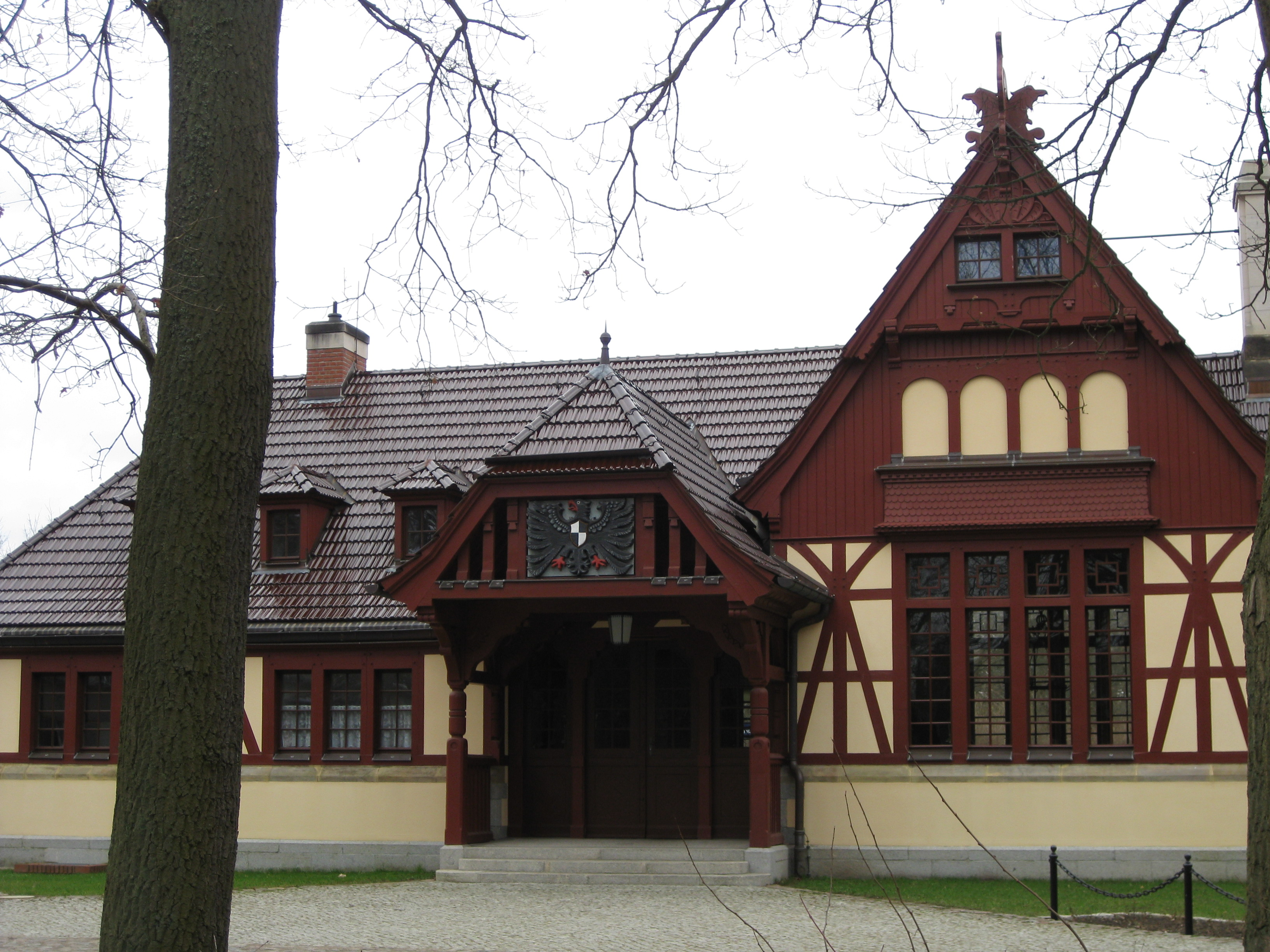 Train station Kaiserbahnhof in Joachimsthal (Barnim).